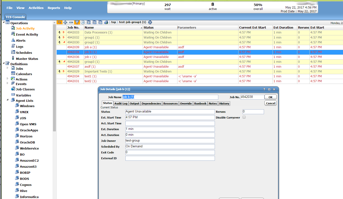 Job Activity View of the Cisco Tidal Enterprise Scheduler GUI